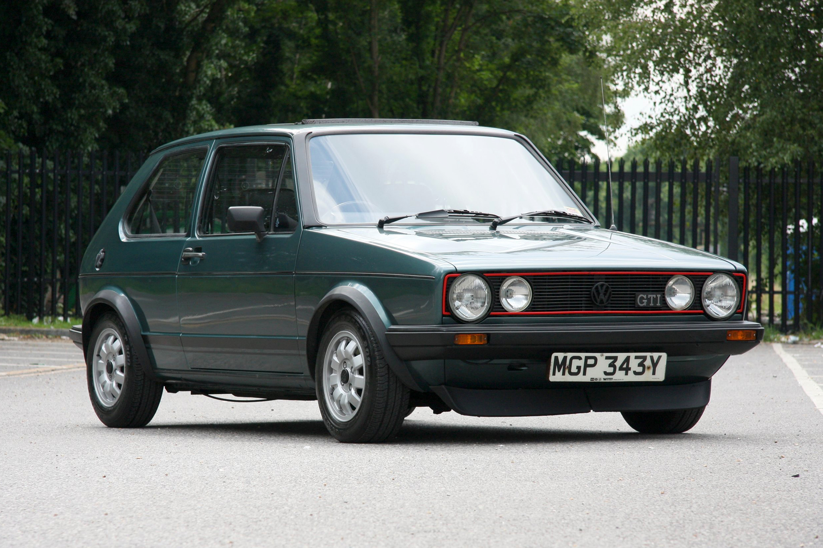 A Volkswagen Golf GTI 1982 in original condition.